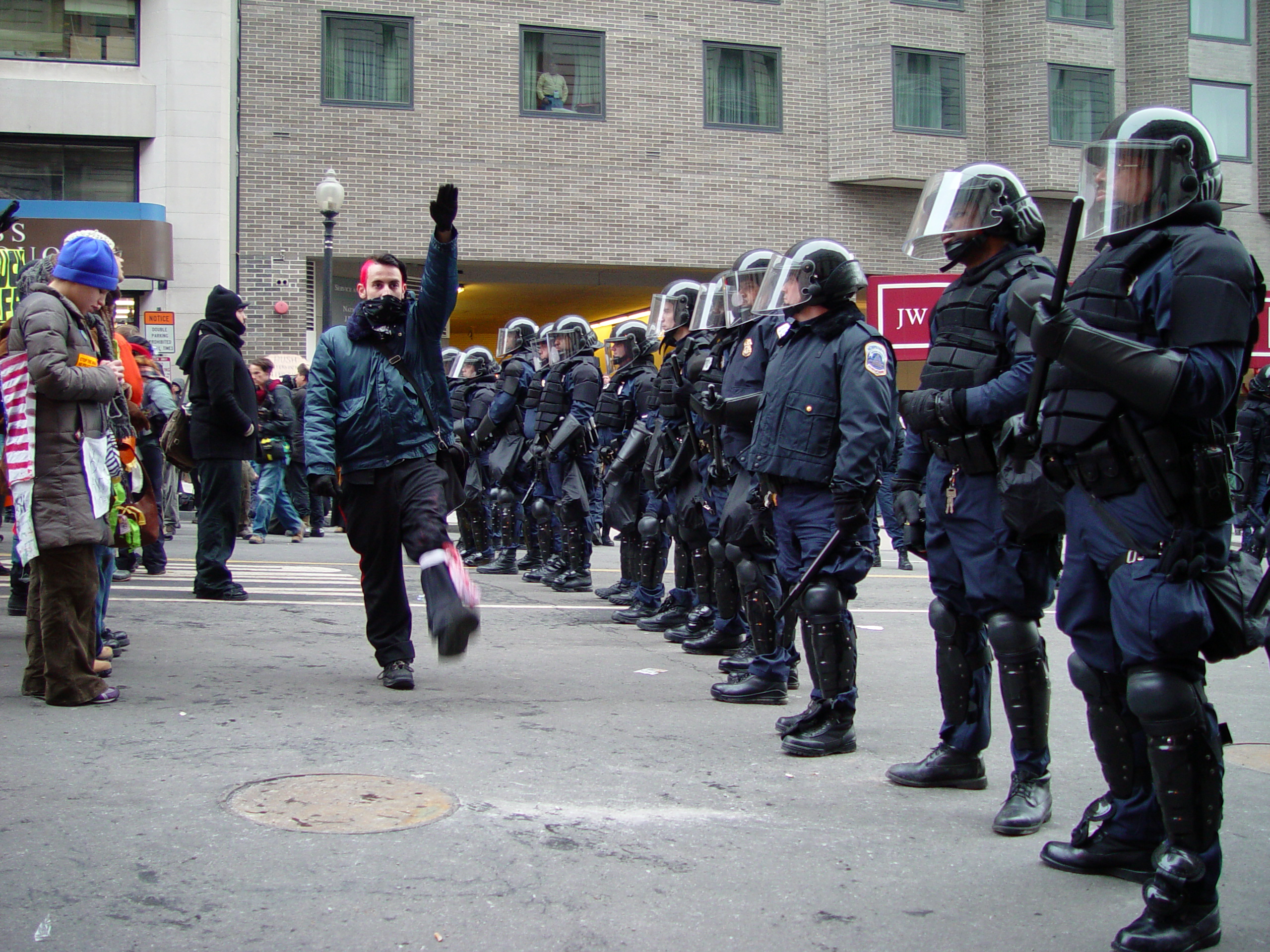 Protesters goose stepping in front of police at Bush's 2nd inauguration, Washington DC.